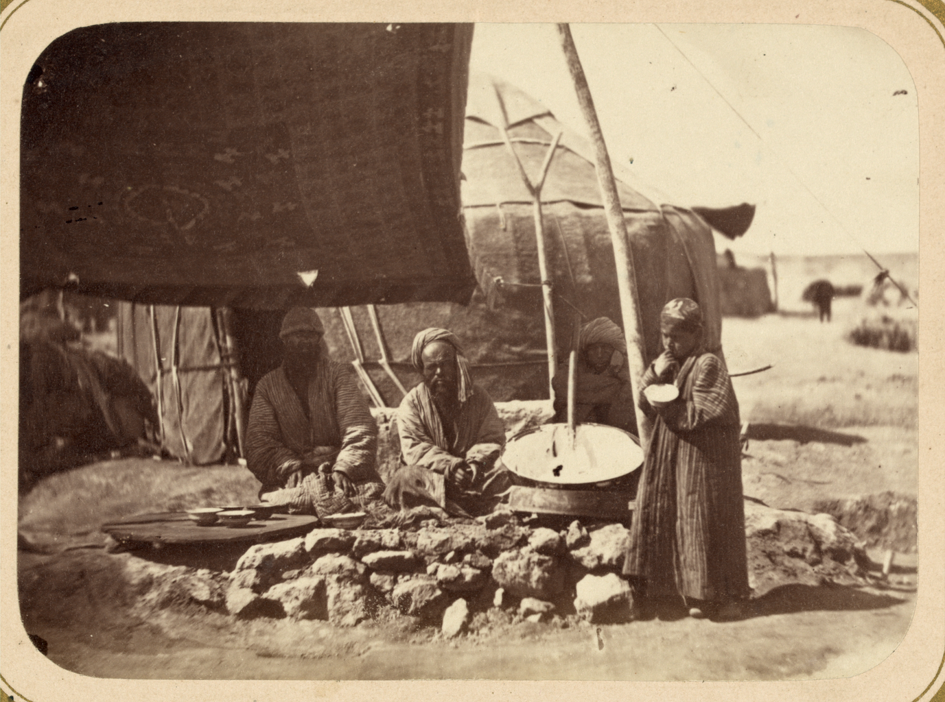 This photograph is from the ethnographical part of Turkestan Album, a comprehensive visual survey of Central Asia undertaken after imperial Russia assumed control of the region in the 1860s. Commissioned by General Konstantin Petrovich von Kaufman (1818–82), the first governor-general of Russian Turkestan, the album is in four parts spanning six volumes: “Archaeological Part” (two volumes); “Ethnographic Part” (two volumes); “Trades Part” (one volume); and “Historical Part” (one volume). The principal compiler was Russian Orientalist Aleksandr L. Kun, who was assisted by Nikolai V. Bogaevskii. The album contains some 1,200 photographs, along with architectural plans, watercolor drawings, and maps. The “Ethnographic Part” includes 491 individual photographs on 163 plates. The photographs show individuals representing the different peoples of the region (Plates 1–33); daily life and rituals (Plates 34–91); and views of villages and cities, street vendors, and commercial activities (Plates 92–163). Ethnographic photographs; Festivals; Folk festivals; Food vendors; Merchants; Photographic surveys; Turkic peoples